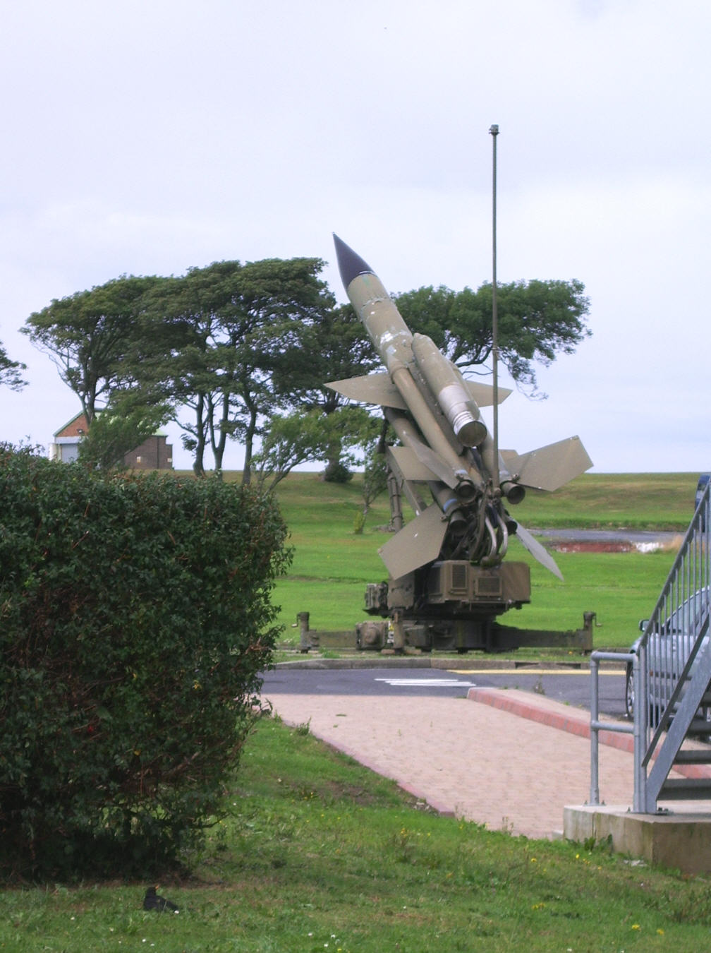 MOD Aberporth car park 2